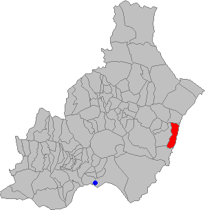 The location of the municipality of Mojácar in the Almería province.